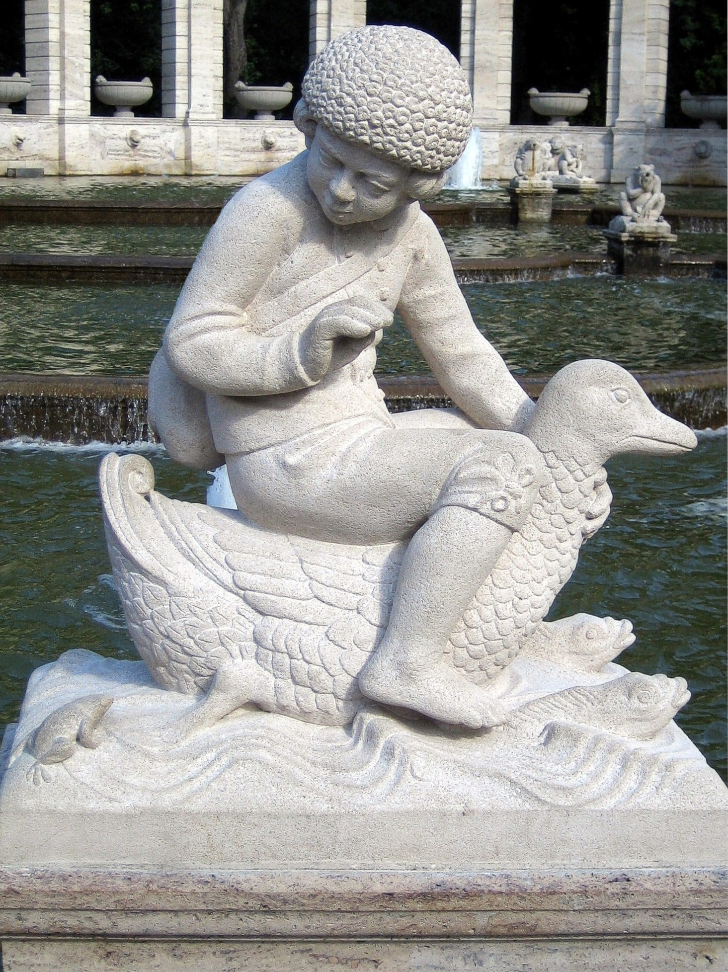 Friedrichshain locality of Berlin: Märchenbrunnen (fairy tale fountain) in the Volkspark Friedrichshain park, sculpture of «Hansel» on a second version of the Brothers Grimm fairy tale «Hansel and Gretel» by Ignatius Taschner.